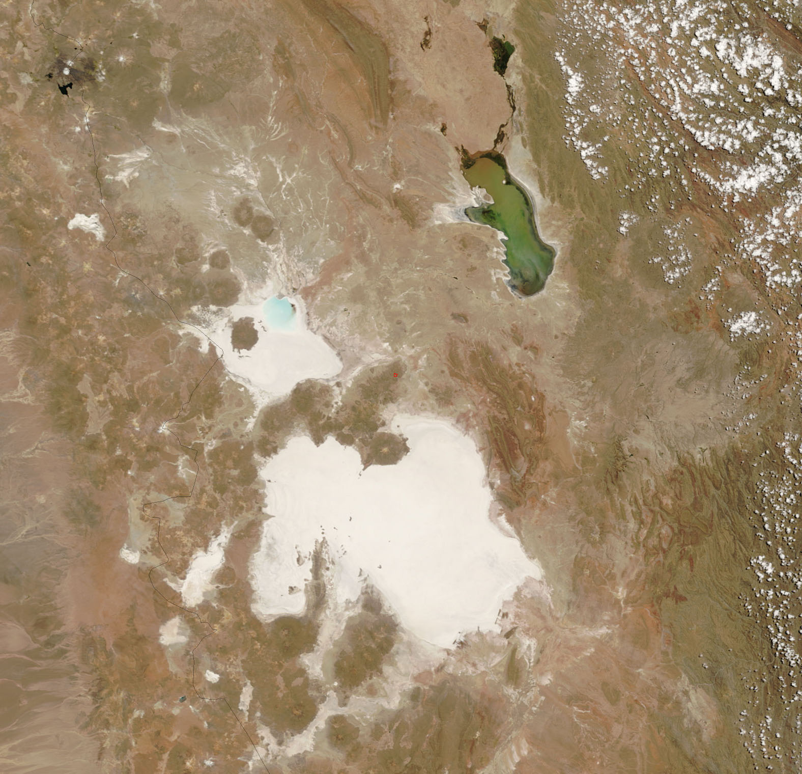 This MODIS Terra image from October 19, 2006, shows Salar de Uyuni, in Bolivia, in South America. Salar de Uyuni is the world's largest salt flat, at larger than 3000 square miles in size. It is located near the crest of the Andes mountains, at an altitute of 3650 meters! This salt flat was once part of a giant prehistoric lake, that dried up, leaving behind 2 salt flats and two smaller lakes. It is estimated that Salar de Uyuni contains 10 billion tons of salt; its mineral content is mainly gypsum and halite.